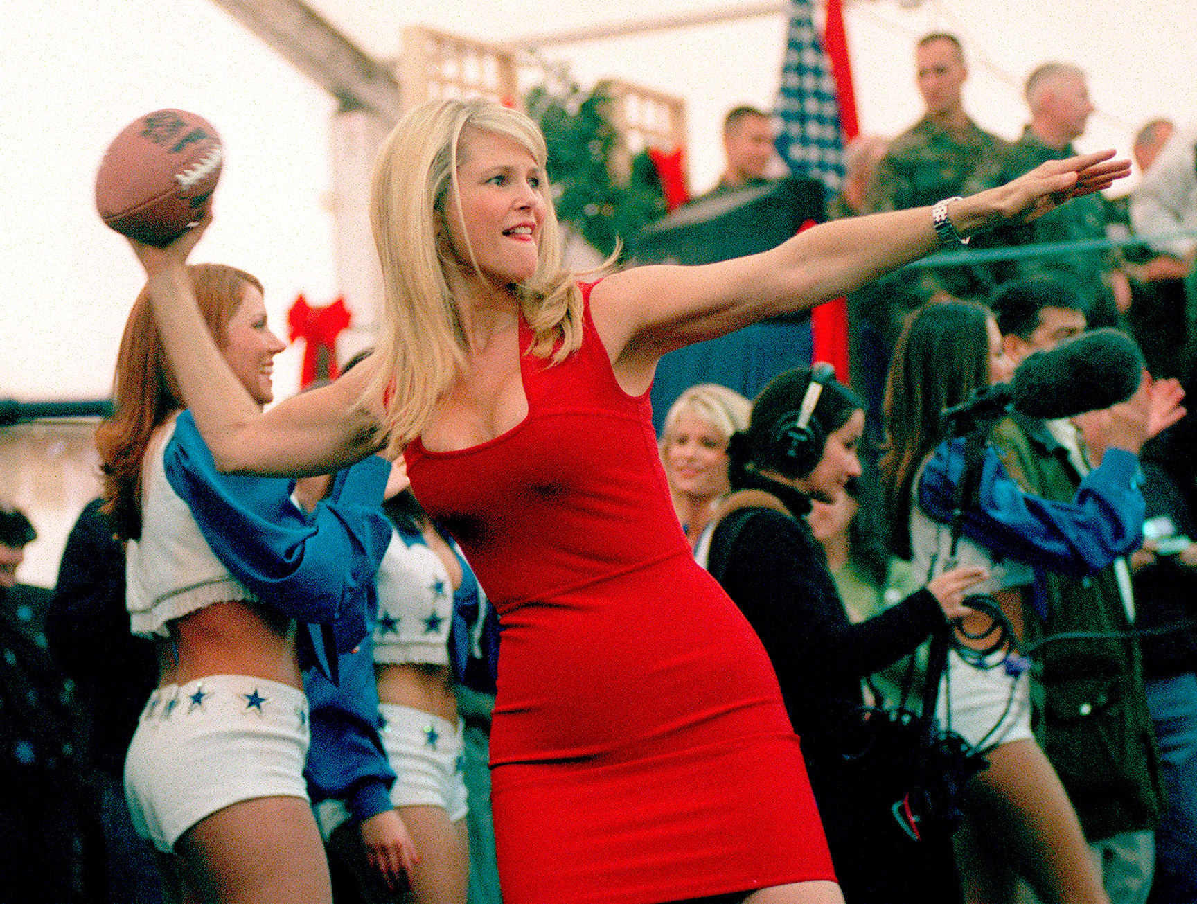 Super model Christie Brinkley winds up to throw an autographed football into the audience during a United Service Organizations (USO) show in the Eagle Sports Complex at Tuzla Air Base, Bosnia and Herzegovina, on Dec. 22, 1999. Brinkley joined the entourage of entertainers, cheerleaders, sports figures, and comedians accompanying Secretary of Defense William S. Cohen on his third annual holiday tour and USO show.